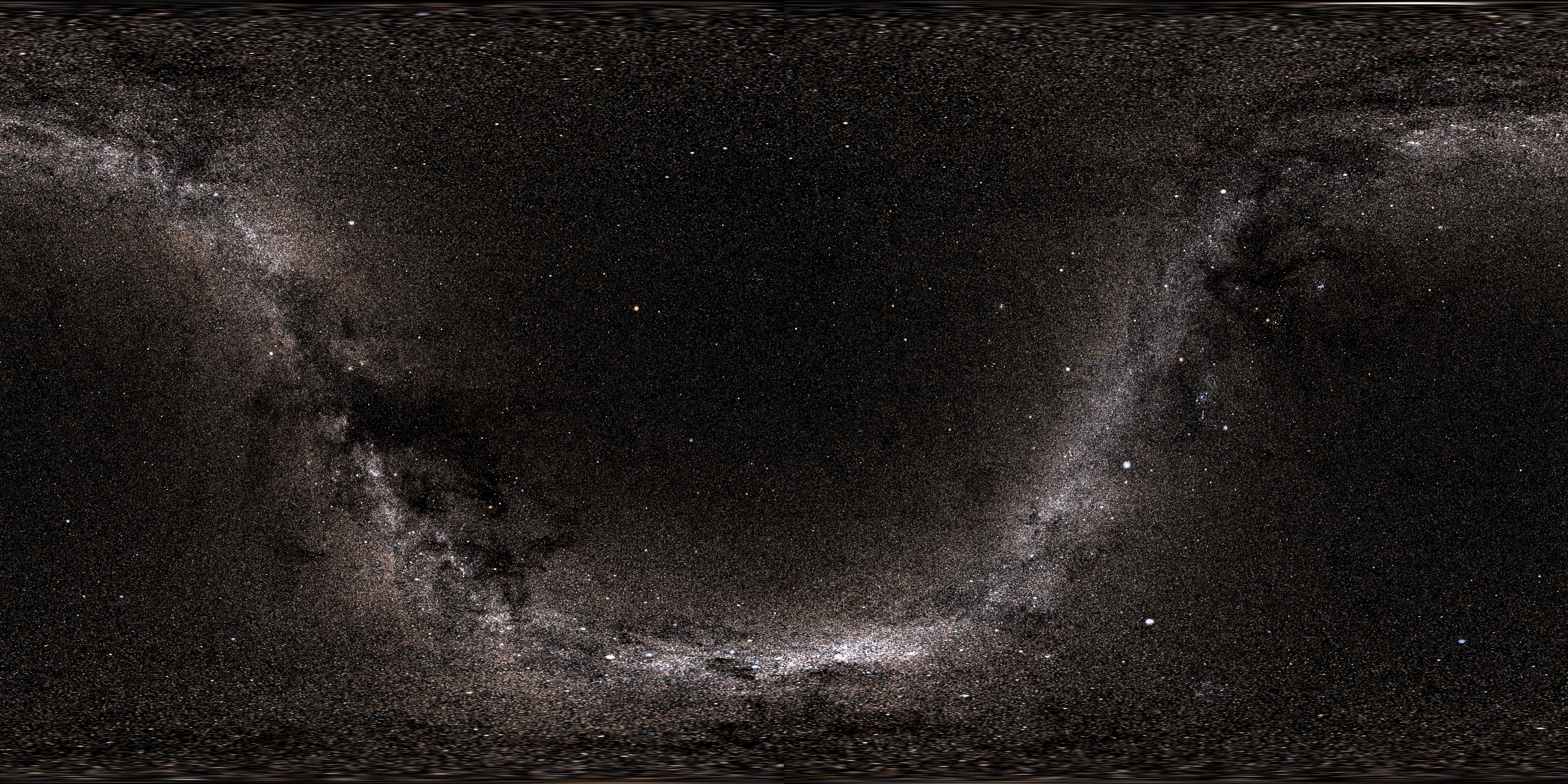 This is a high-resolution version of the skymap. The threshold magnitude is 5.0 so the Milky Way is very bright and bright stars are large. The skymap shows stars from the Tycho and Hipparcos star catalogs, provided by the ESO/ECF generic catalog server. The map is plotted in plate carrée projection (Cylindrical-Equidistant) using celestial coordinates making them suitable for mapping onto spheres in many popular animation programs. The stars are plotted as gaussian point-spread functions (PSF) so the size and amplitude of the stars corresponds to their relative intensity. The stars are also elongated in Right Ascension (celestial longitude) based on declination (celestial latitude) so stars in the polar regions will still be round when projected on a sphere. Stars fainter than the threshold magnitude, usually selected as 5th magnitude, have their magnitude-intensity curve adjusted so they appear brighter than they really are. This makes the band of the Milky Way more visible. About 2.4 million stars are plotted, but many may be below the pixel intensity resolution.